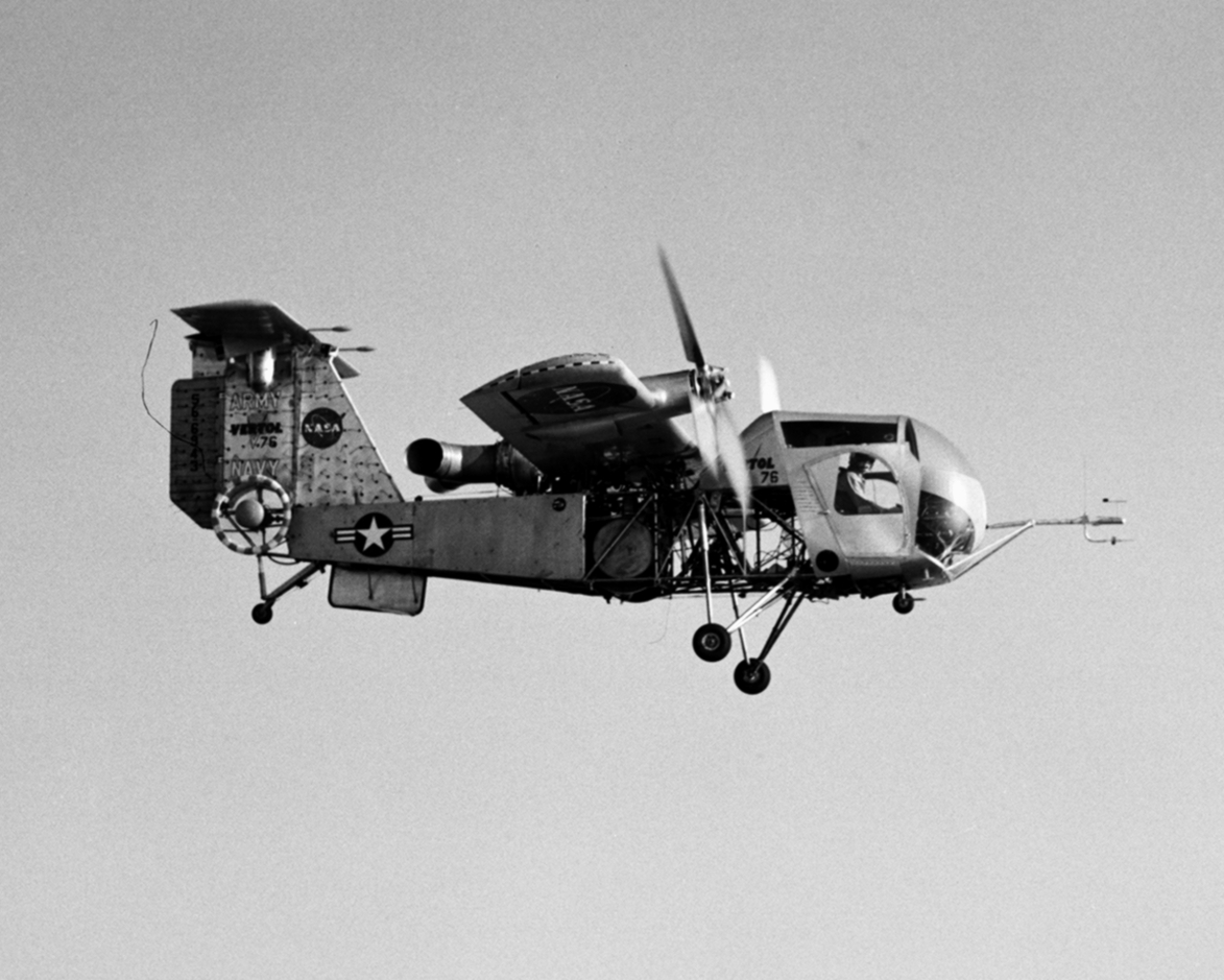 A Vertol VZ-2 (Vertol 76) in flight.